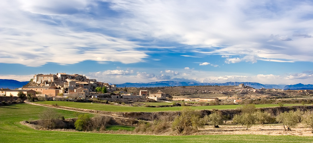 Granyanella town